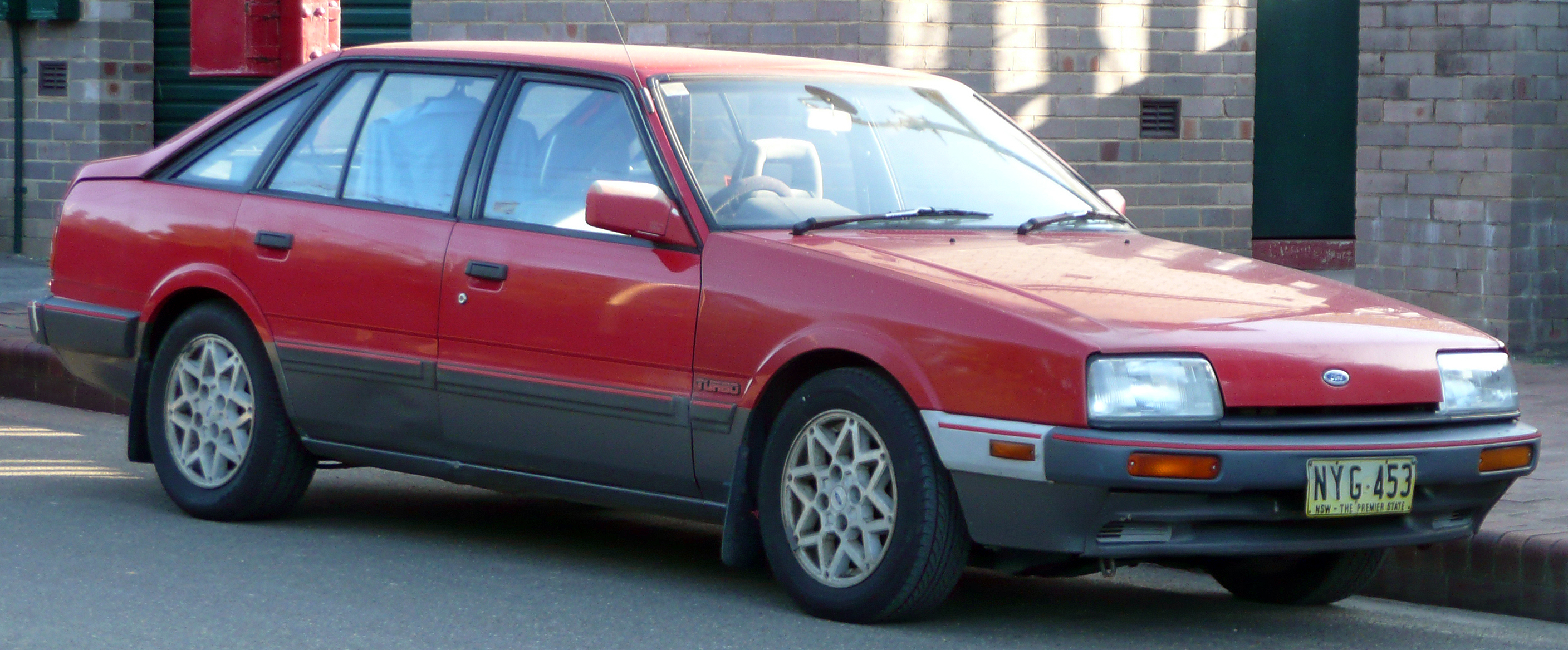 1986 Ford Telstar TX5 (AS) Turbo sedan. Photographed in Loftus, New South Wales, Australia.